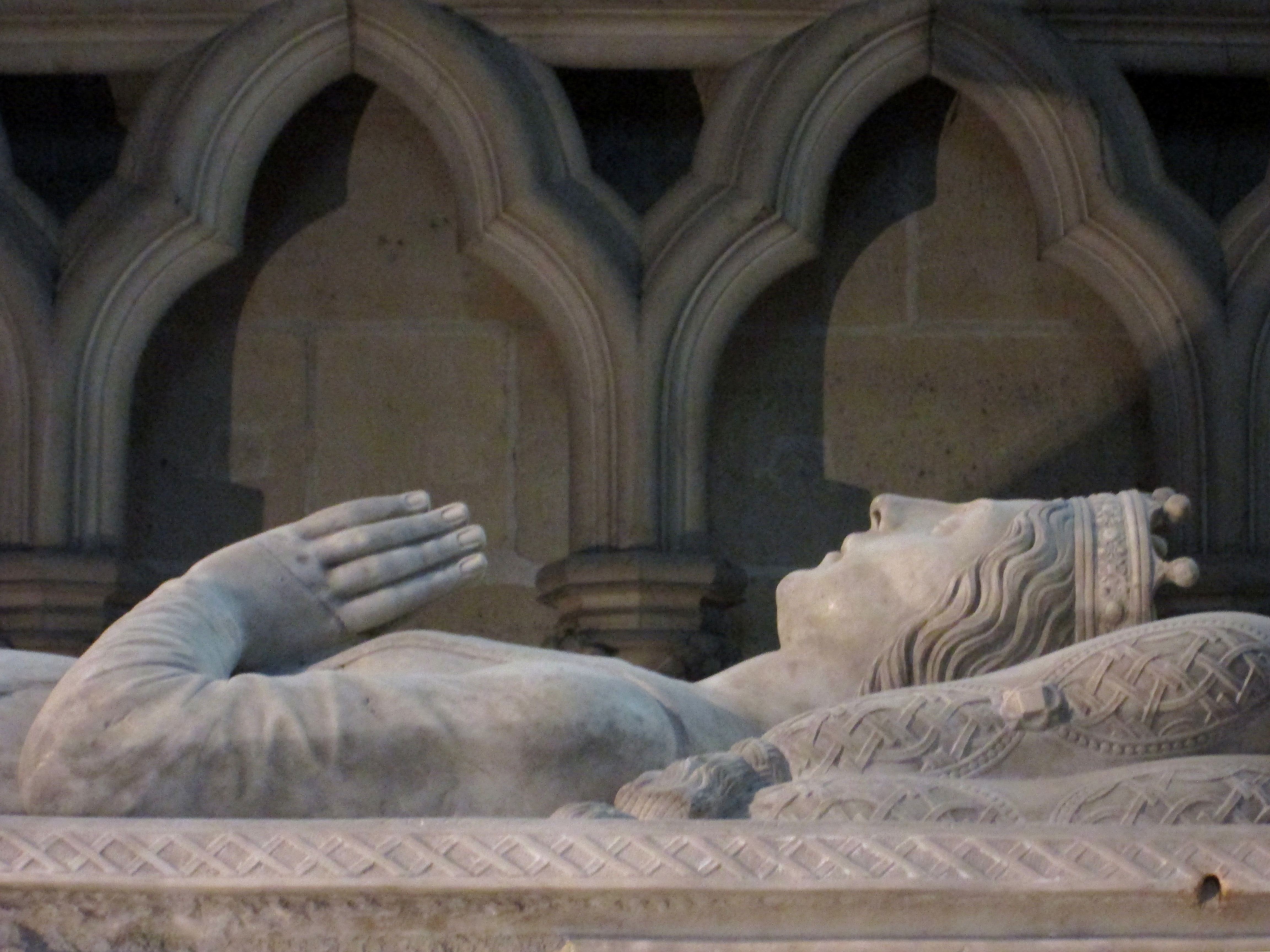 Gisant of Valentina Visconti, duchess of Orléans.